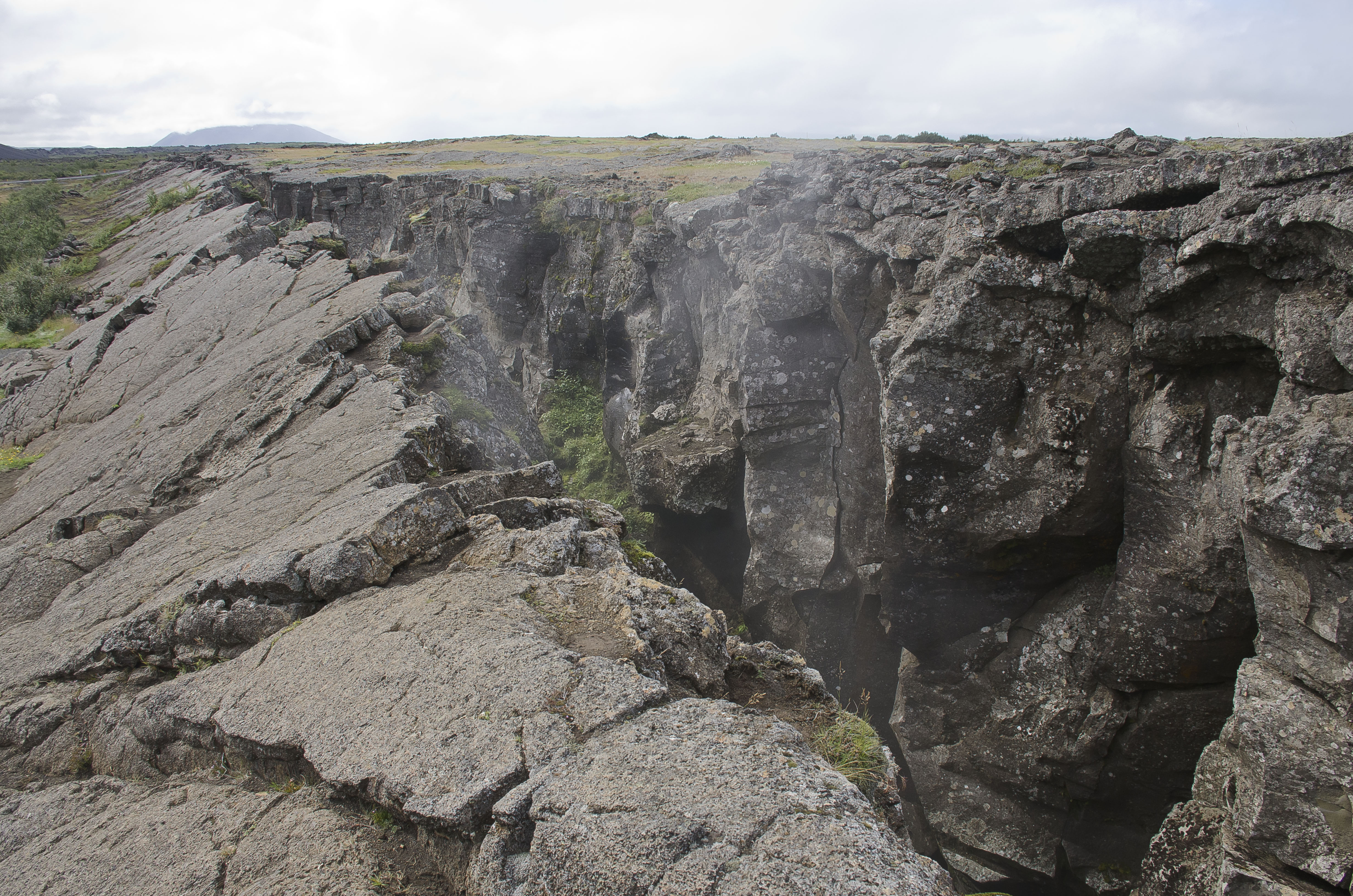 Grjótagjá fissure, Iceland